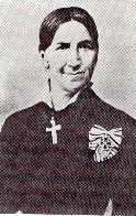 original photo of Katharina Weißgerber